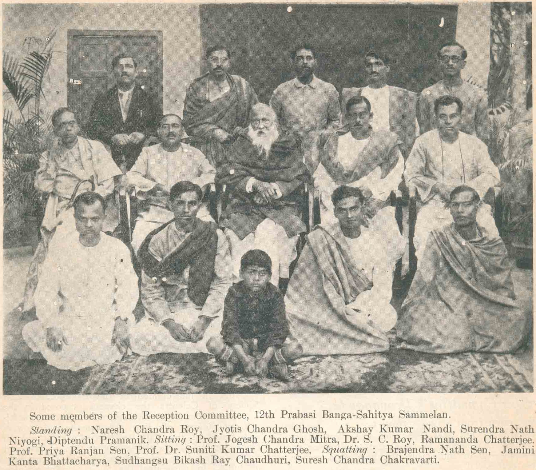 Photo showing the Reception Committee of the 12th Prabasi Banga Sahitya Sammelan; Bengali Literary Conference held at Calcutta in Dec 1934 Photograph of historic significance showing Diptendu Pramanick (standing 5th from left) and other eminent Bengali personalities at the Literary Conference Also seen is Akshay Kumar Nandi